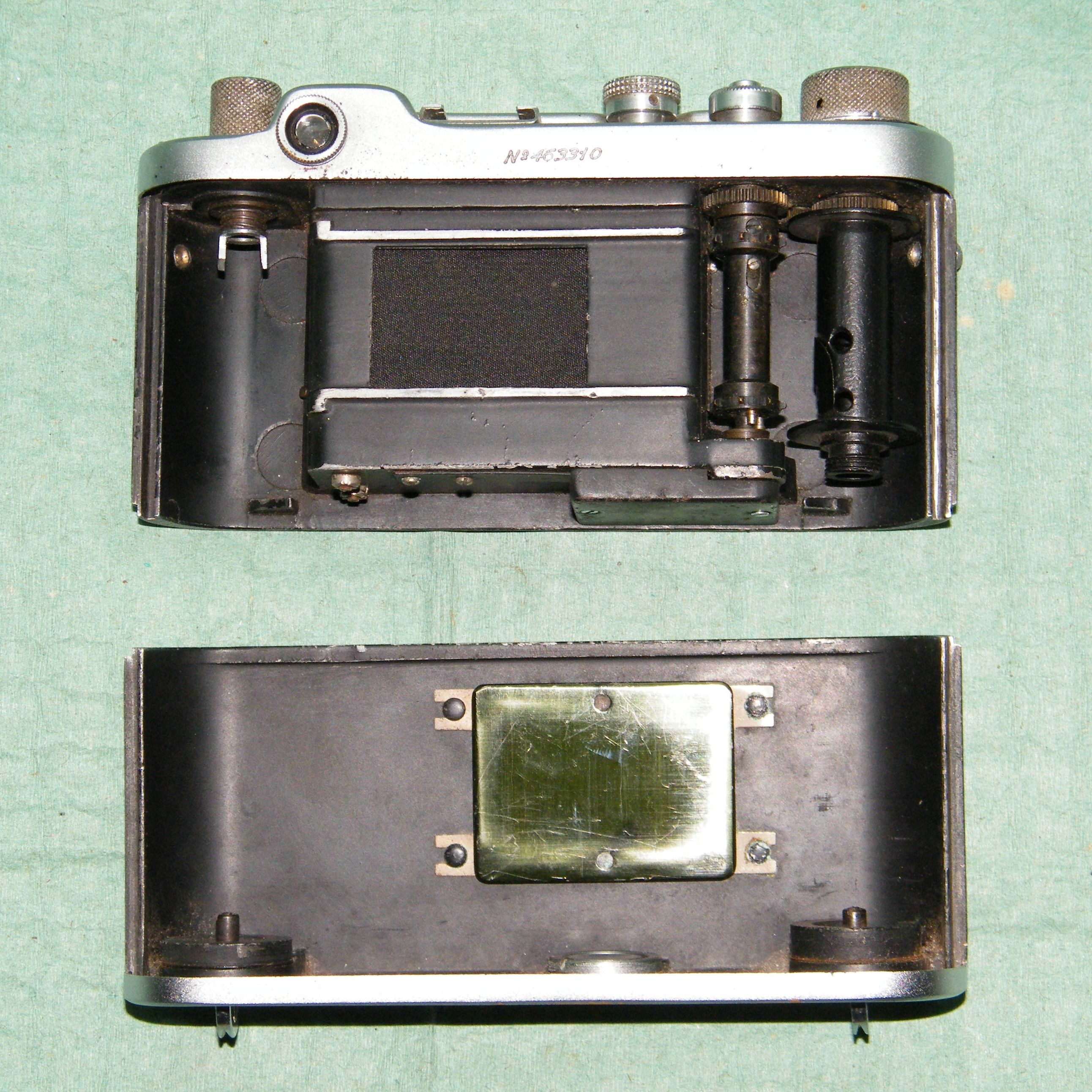 FED 2